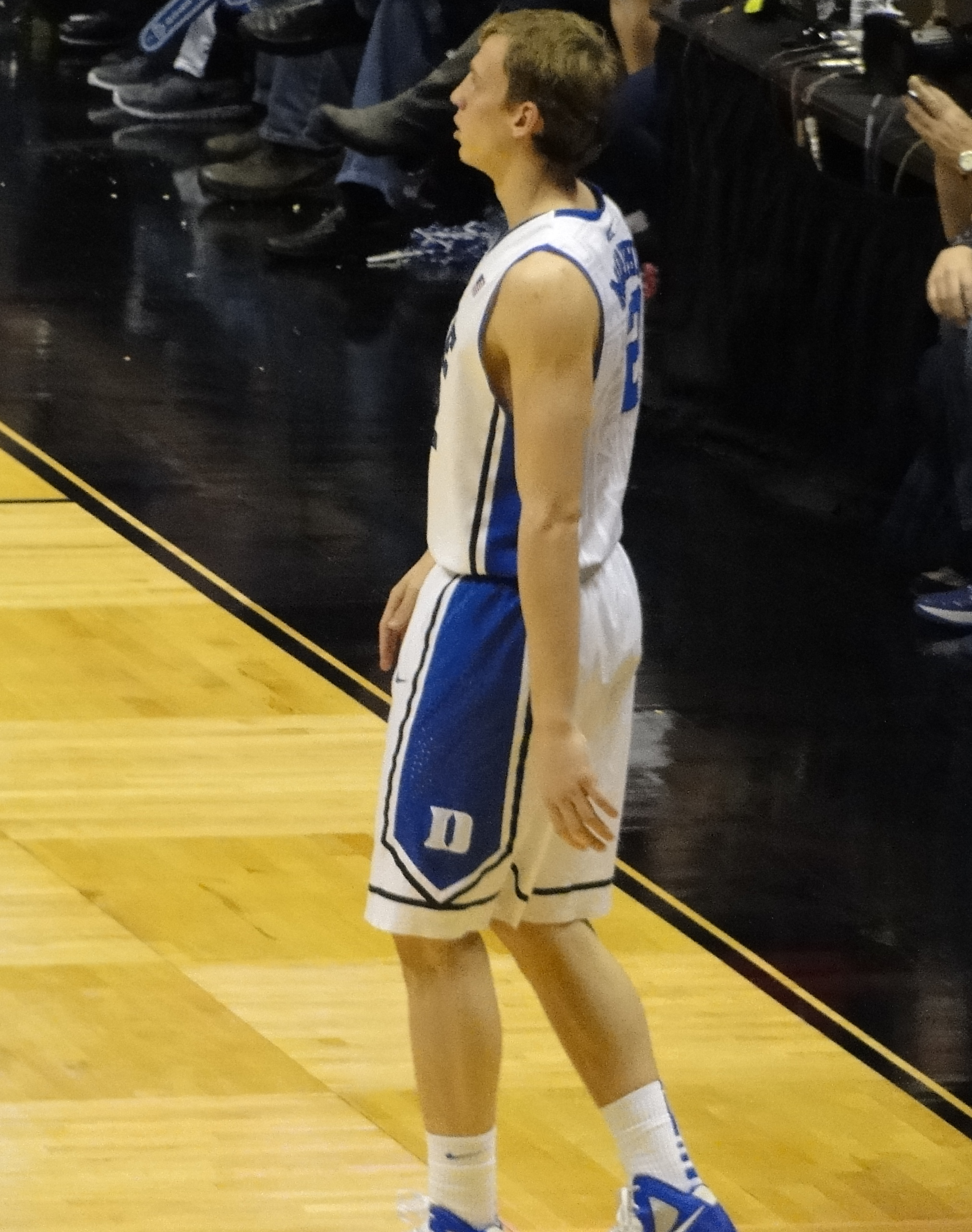 Alex Murphy for Duke